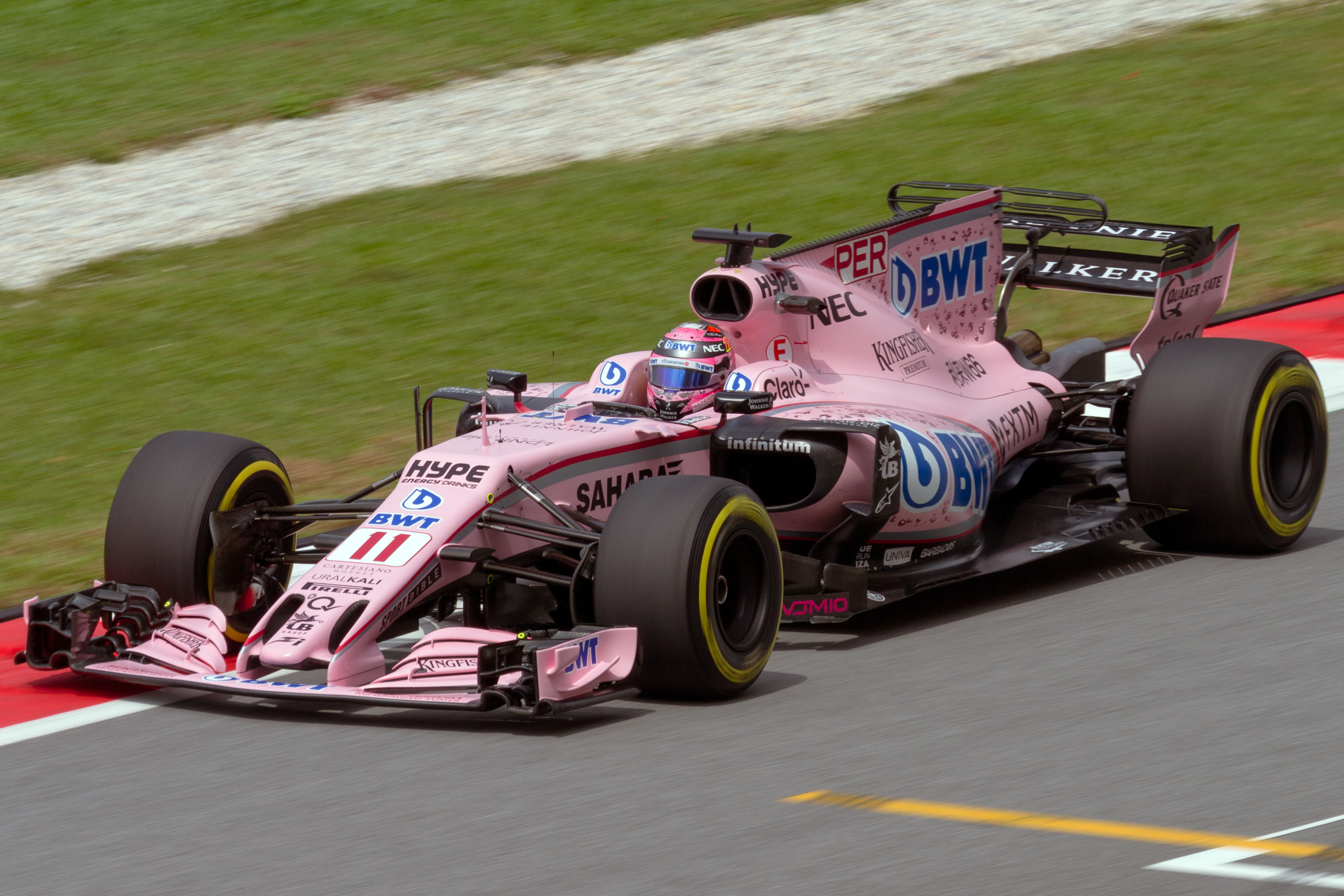 Formula One 2017 Rd.15 Malaysian GP: Sergio Pérez (Force India)